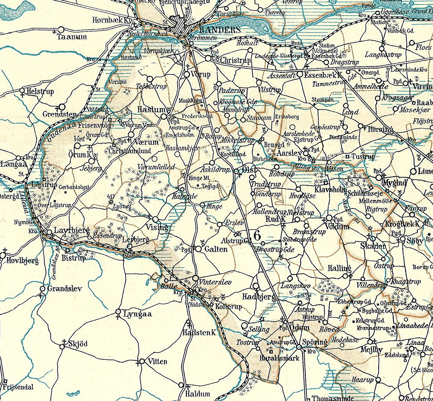 Map of Galten Herred in the western part of Randers County in Denmark